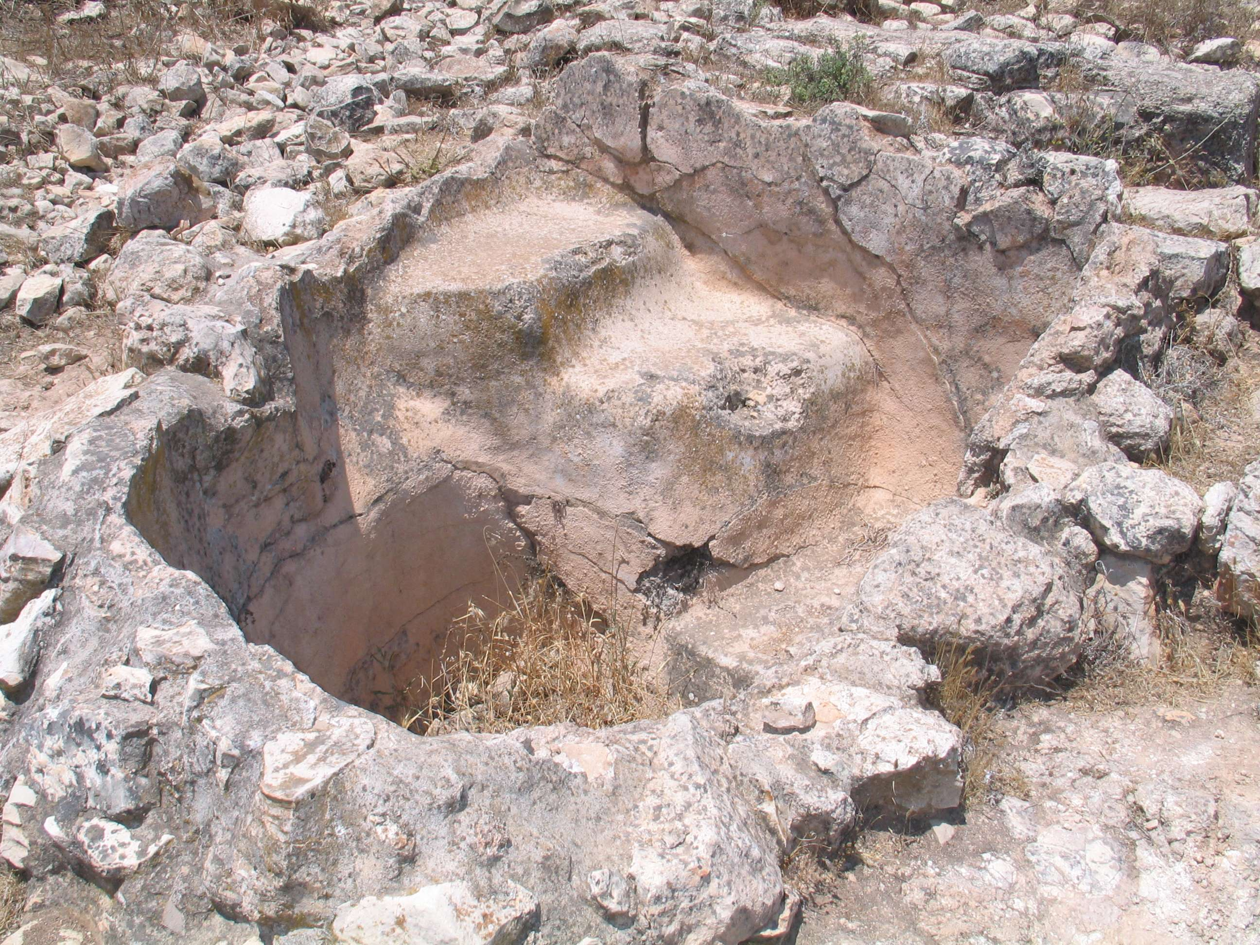 Tel Yodfat, Israel.